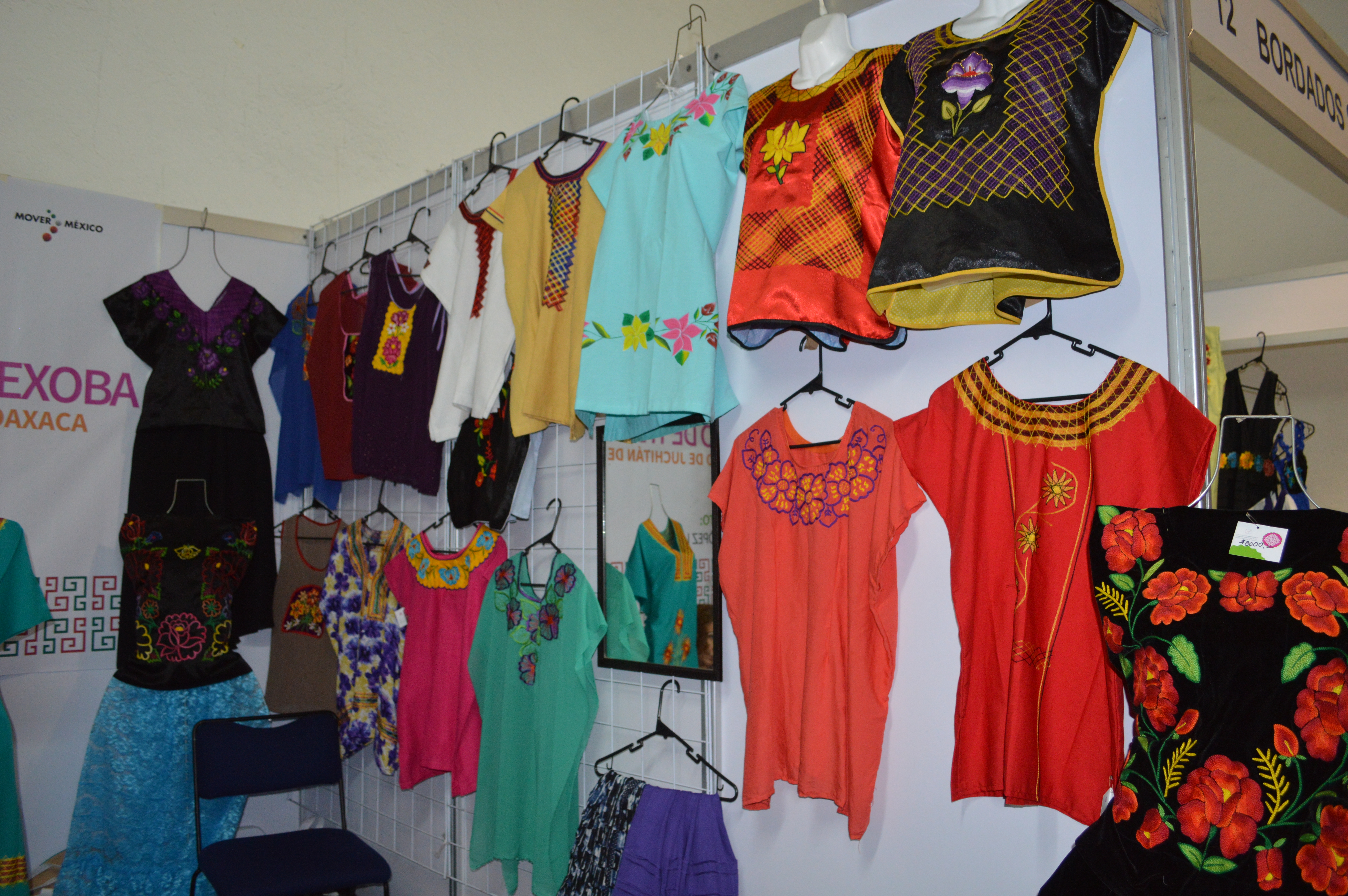 Embroidered items from Juchitan, Oaxaca at the Expo de los Pueblos Indígenas in Mexico City